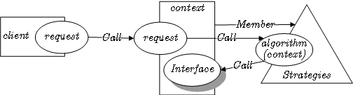 Strategy design pattern in the LePUS3 Design Description Language